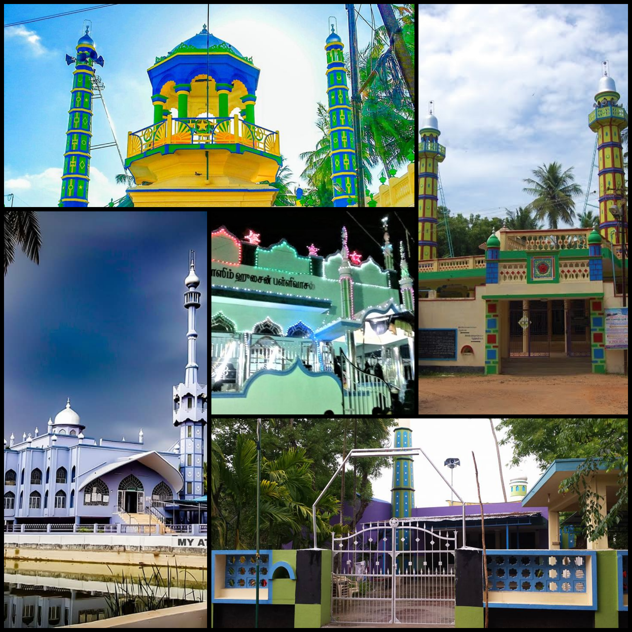 In this picture have 5 Masjid Big masjid, West masjid, Al ameen masjid, VKM Habulammal masjid, Jaseem hussain masjid.